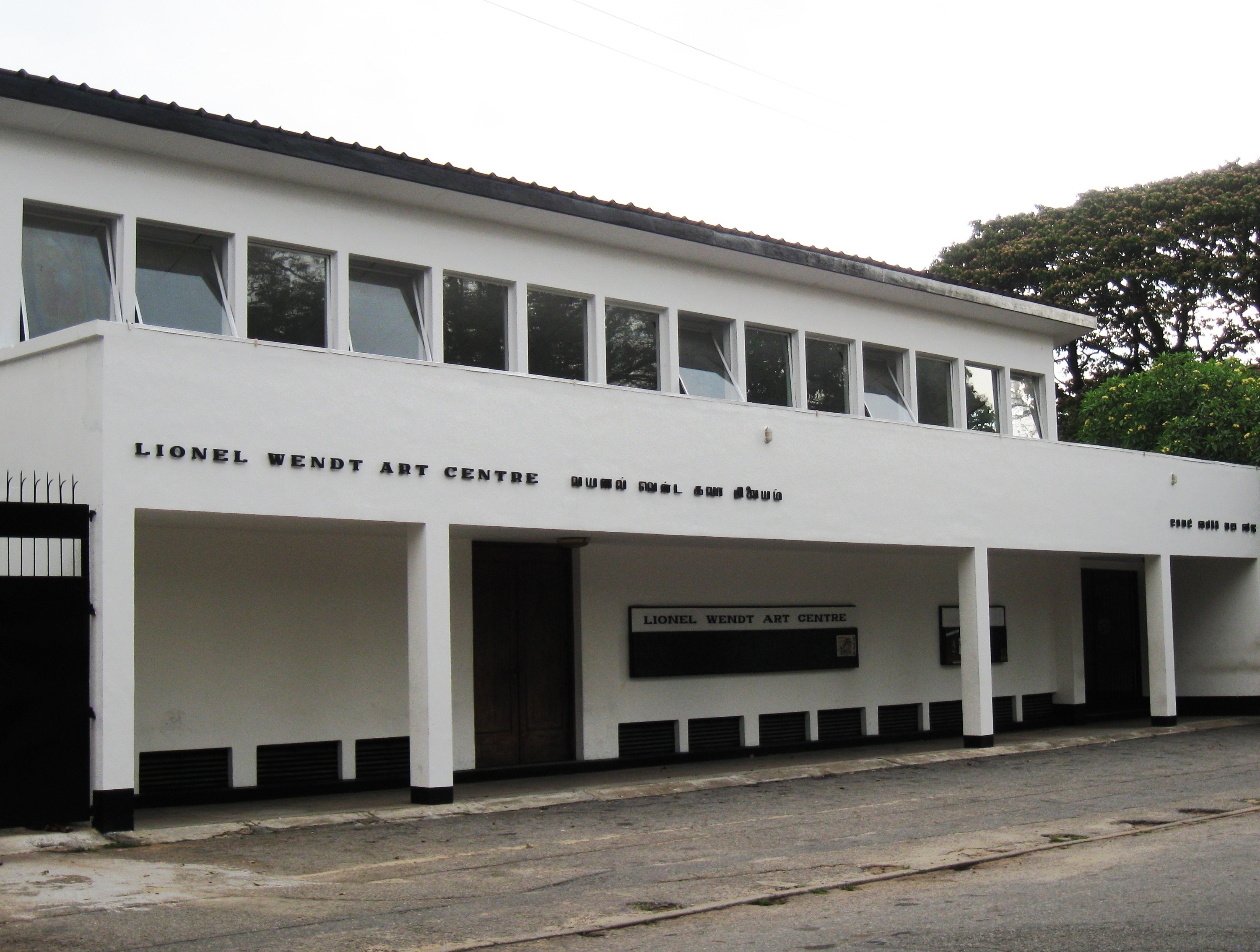 Photograph of Lionel Wendt Art Centre